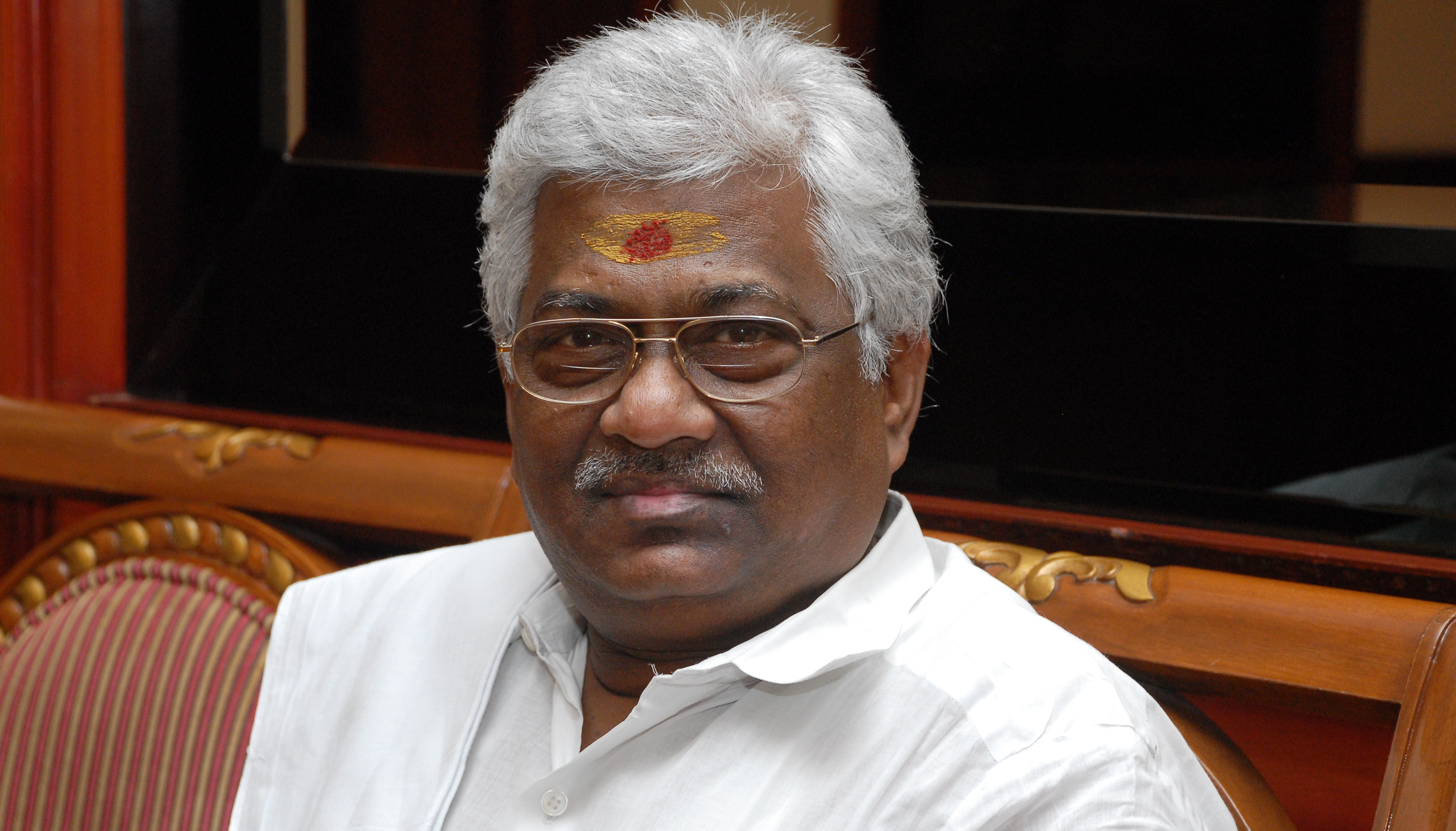 chairman of madura travel service(p) ltd